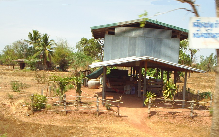 House in Ampoe Phibun, Ubon. Image taken by User:Markalexander100